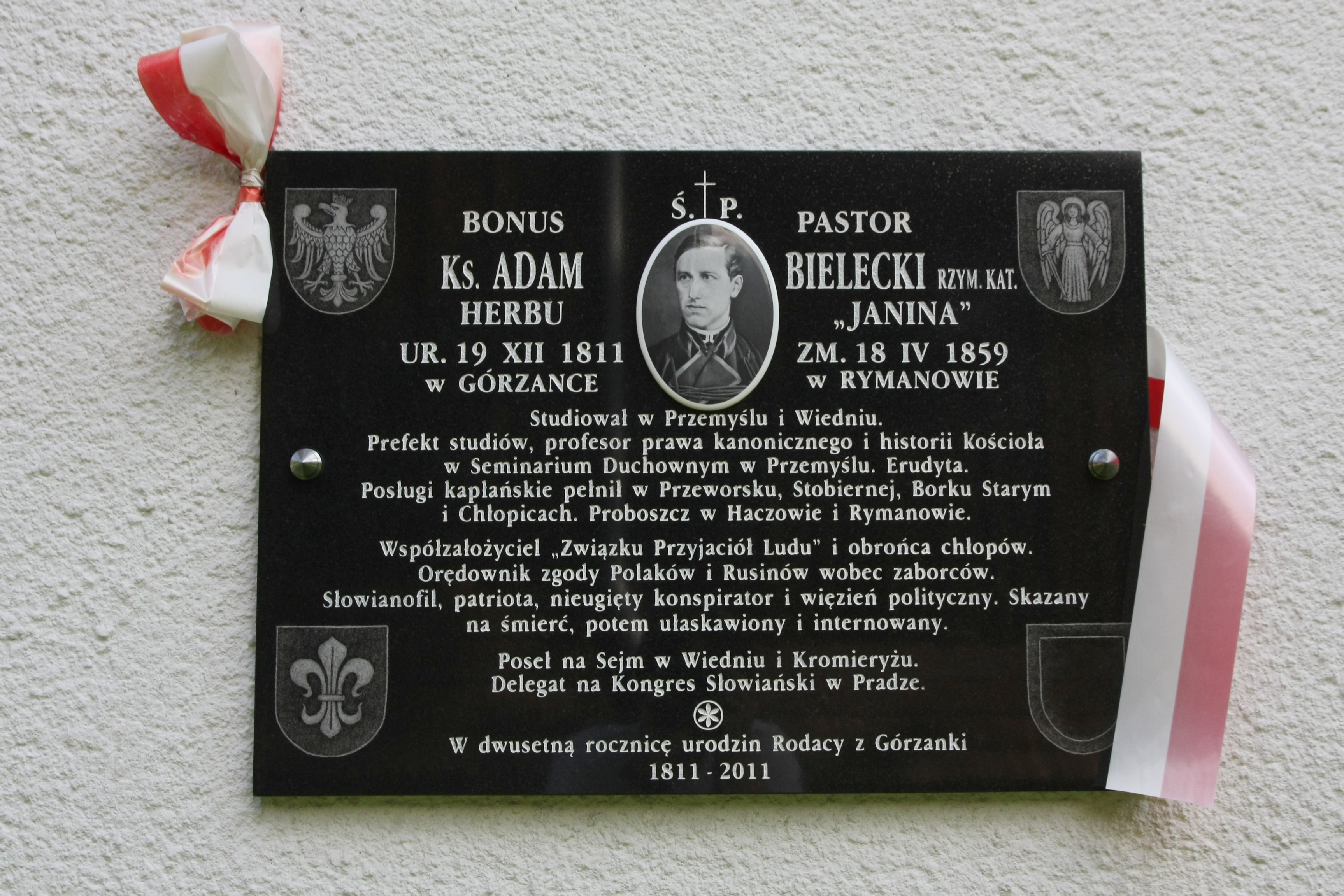 Church in Górzanka.